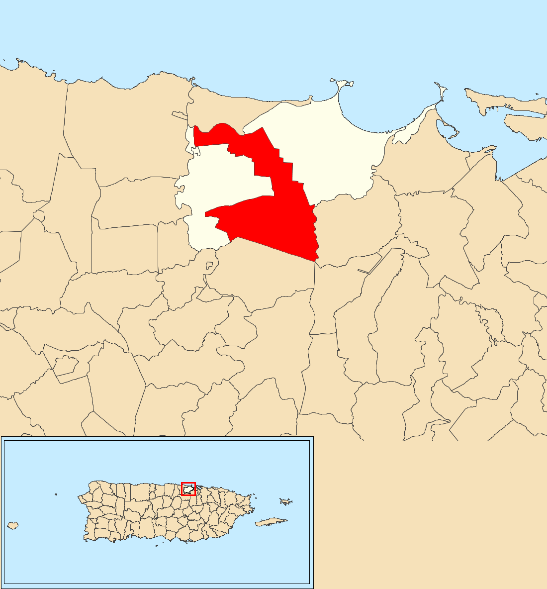 Candelaria, Toa Baja, Puerto Rico locator map